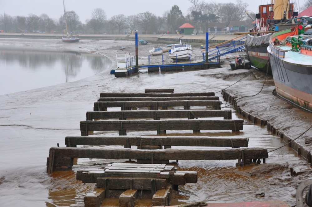 The barge blocks at Cooks yard on the River Blackwater in Maldon, England. These blocks are under water at high tide, allowing a barge to be floated onto them. They dry out at low tide to allow access to the flat bottoms of Thames sailing barges for scraping off barnacles and weed and applying antifouling. They also allow limited repair work to be done between tides. They are the last original barge blocks left on the east coast of England [1]. Photo by Will Kemp. Date 16th December 2008